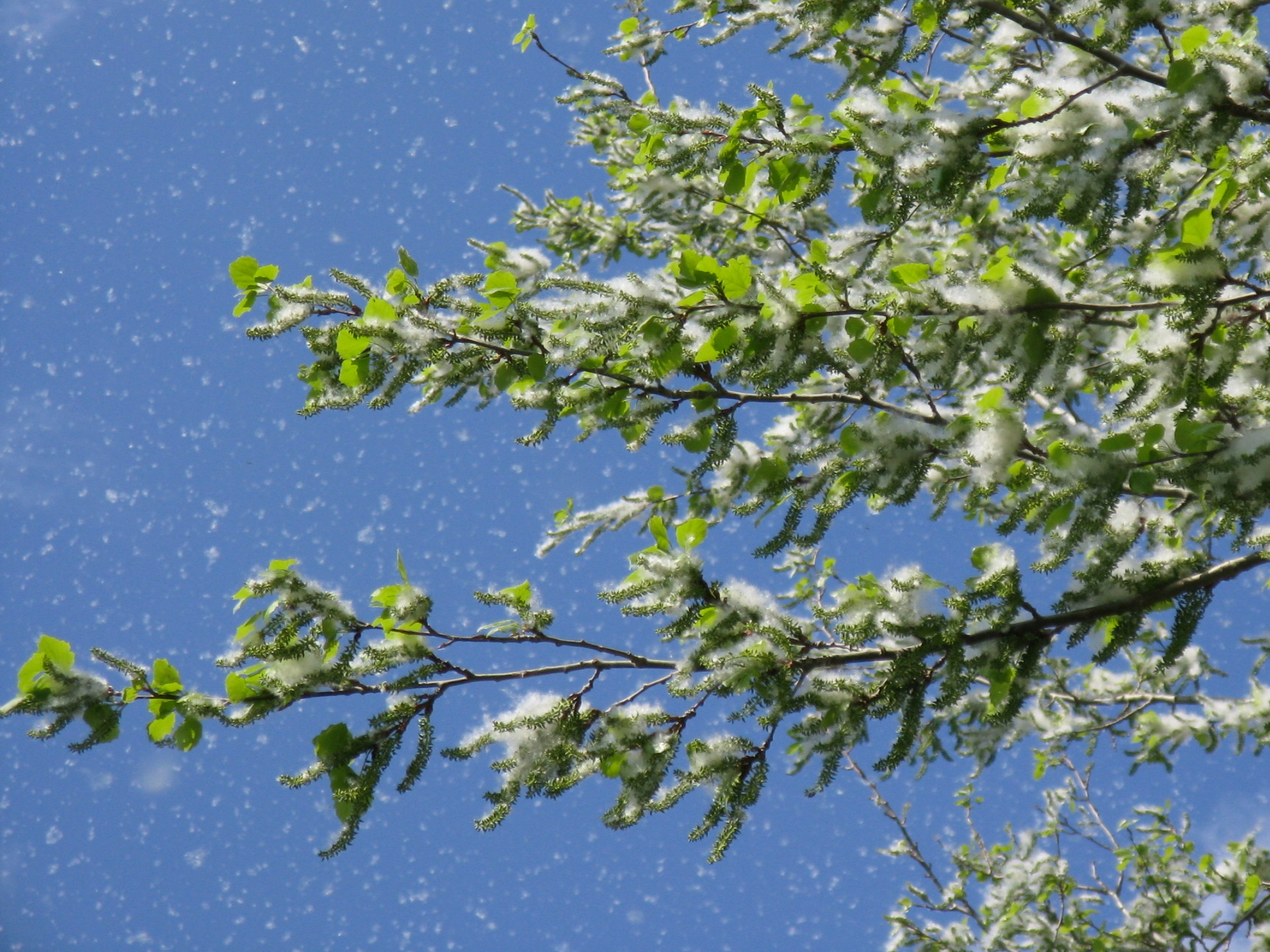 Unidentified poplar (Populus sp., probably P. tremula) shedding seeds